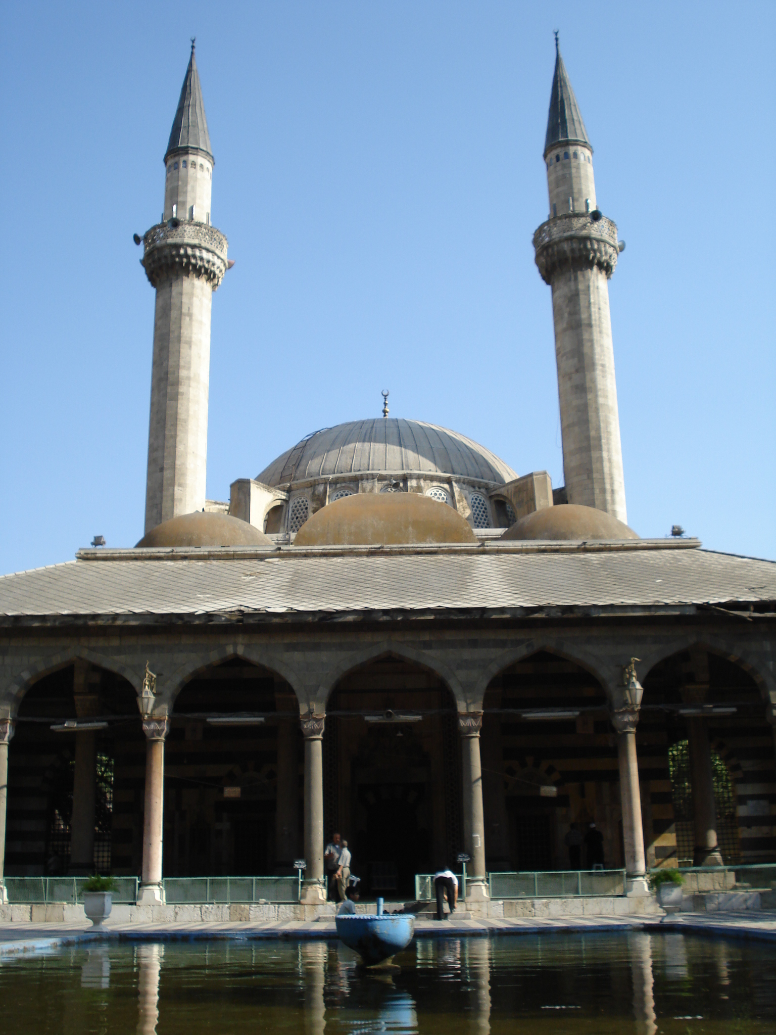 Altakiyyah Al-Sulaymaniyyah mosque in Damascus